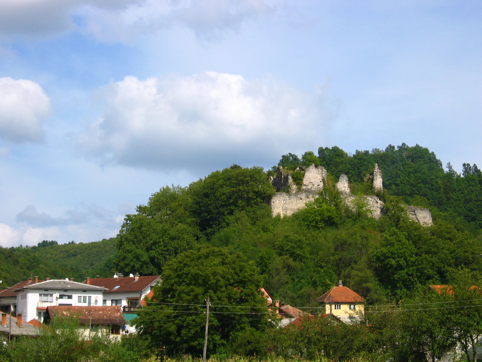 Castle near to the town of Vrnograč in Western Bosnia-Herzegovina.